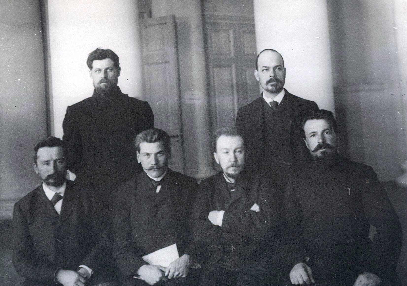 The members of the second Russian State Duma from Vladimir Governorate, 1907. First line (from left to right): К.К. Chernosvitov, N. A. Zhideluov, N. M. Iordanskiy, F. P. Gerasimov; second line — G. I. Sitnikov and A. O. Gorev.